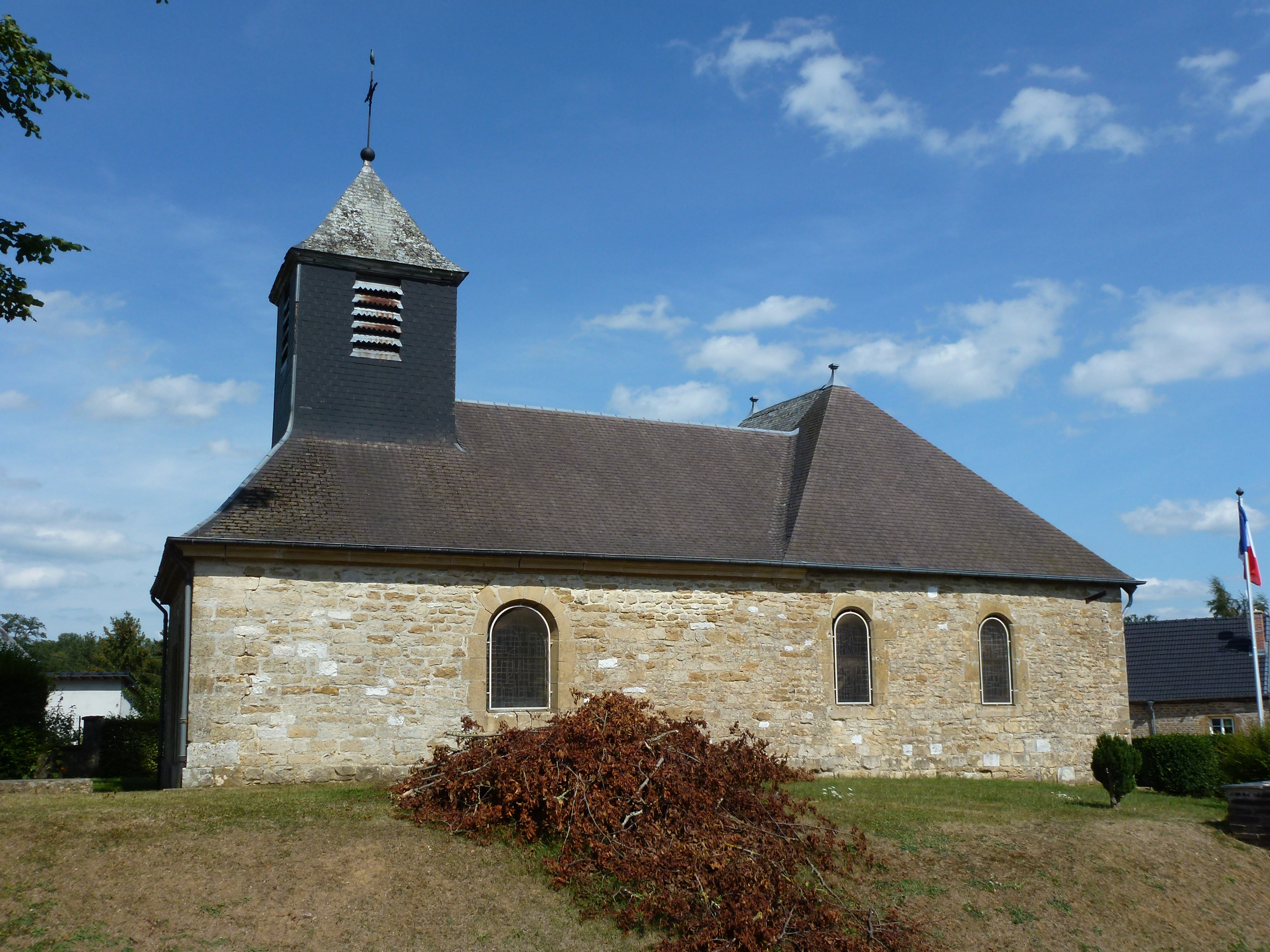 La Horgne (Ardennes) église